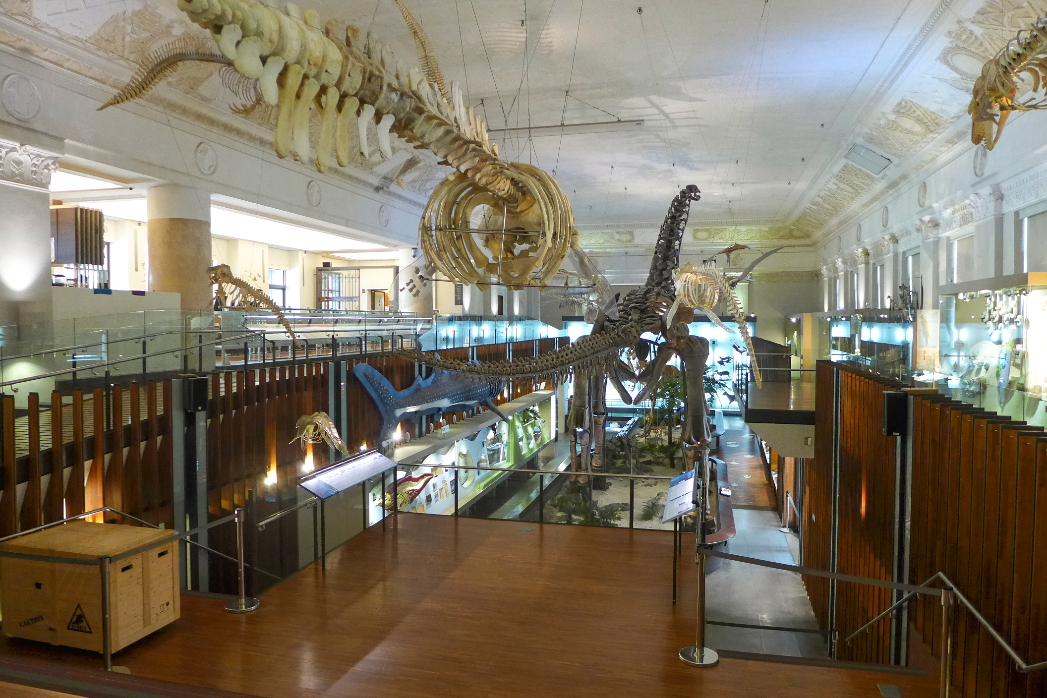 Historical Museum of the Land Bank of Taiwan